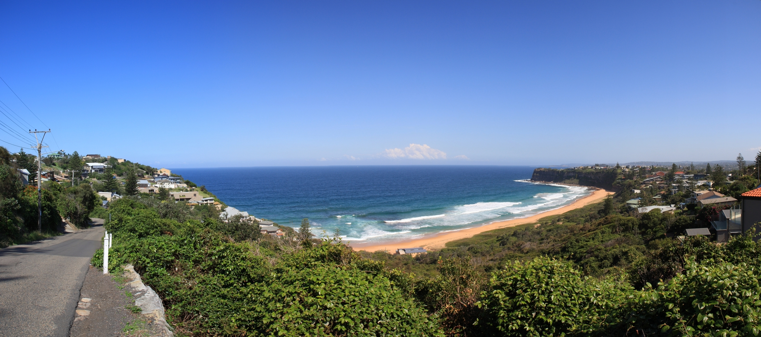 Burrong Beach Northern Beaches Sydney